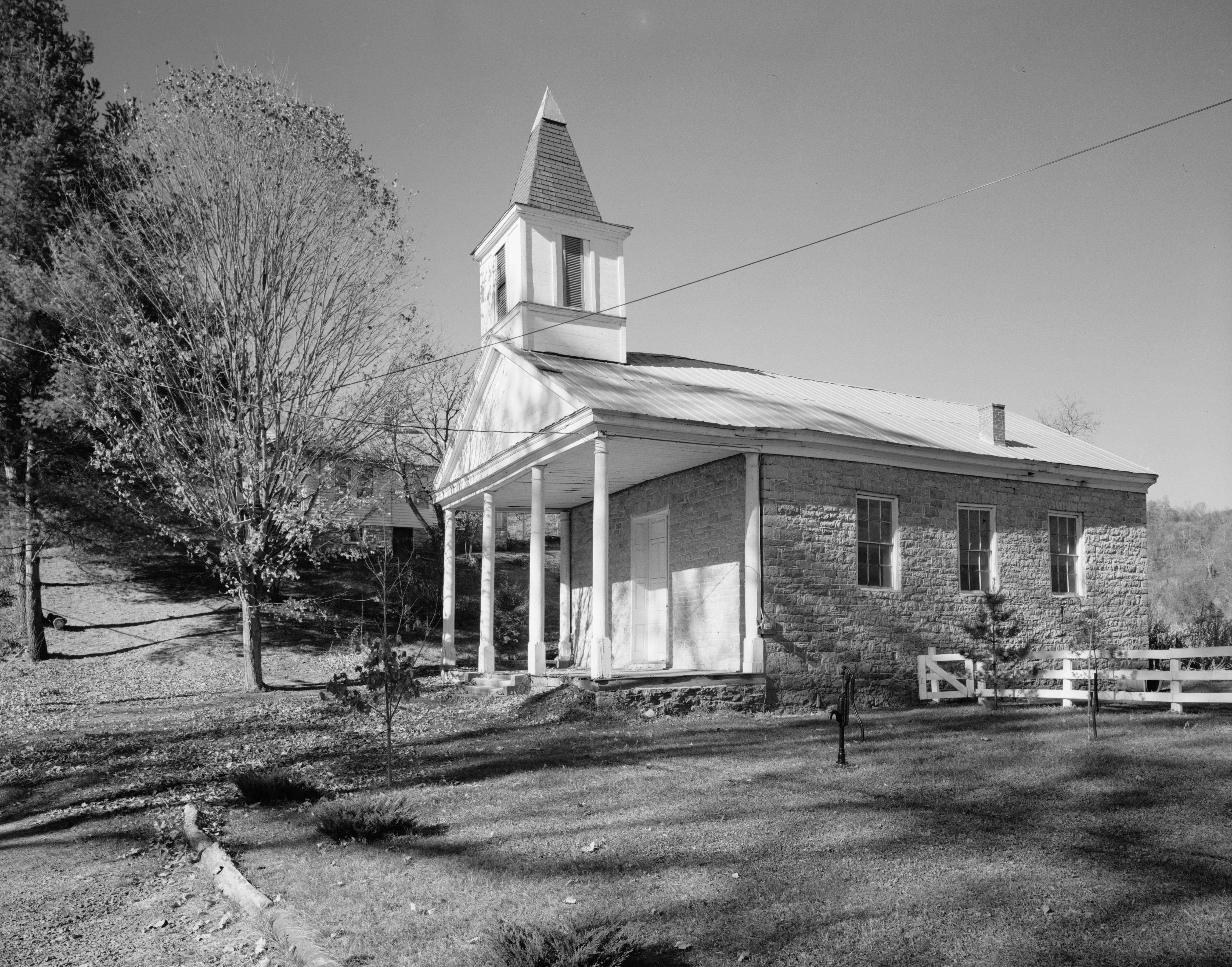 Front and side of the Salt Sulphur Springs Chapel, located along U.S. Route 219 in Salt Sulphur Springs in Monroe County, West Virginia, United States. Built in 1840, it is a part of the Salt Sulphur Springs Historic District, a historic district that is listed on the National Register of Historic Places.